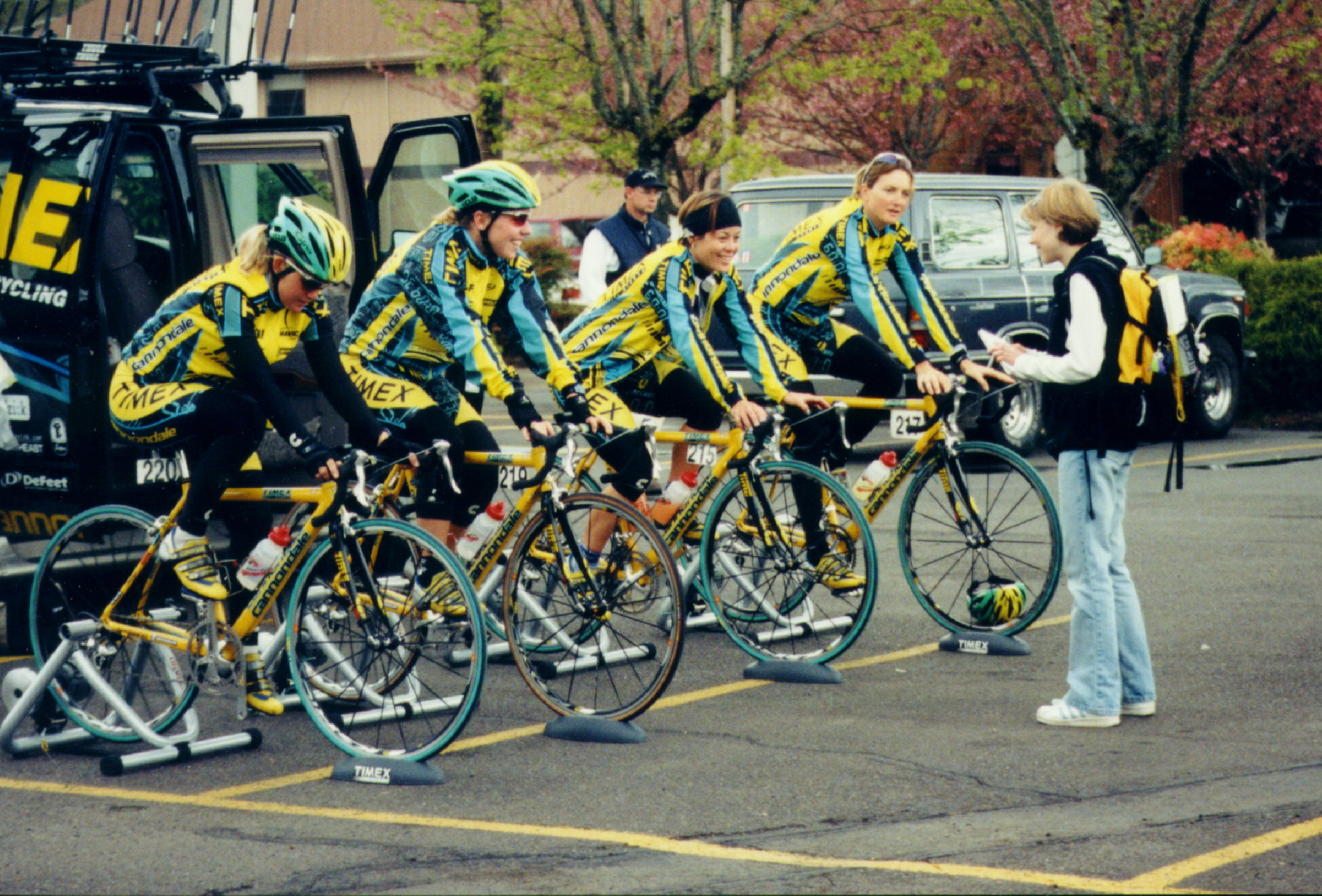 Members of the Timex racing team (left to right: Sanna Lehtimaki, Erin Veenstra, Mari Holden, and Kim Smith) being interviewed by a student reporter from the local high school during the 2000 Tour of Wilammette. This photo was taken in Cottage Grove, Oregon just prior to the start of the Cottage Grove Criterium, which was won by Mari, who also went on to win the overall General Classification in the Tour itself.